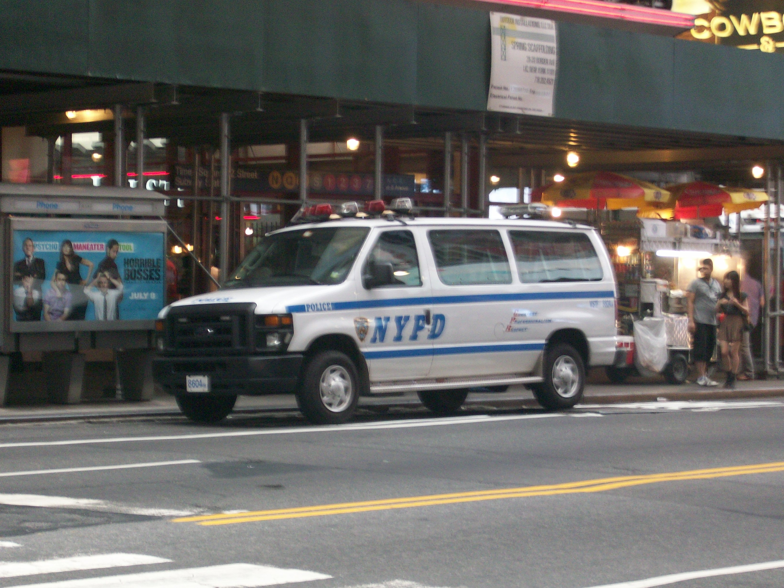 Ford van of the NYPD